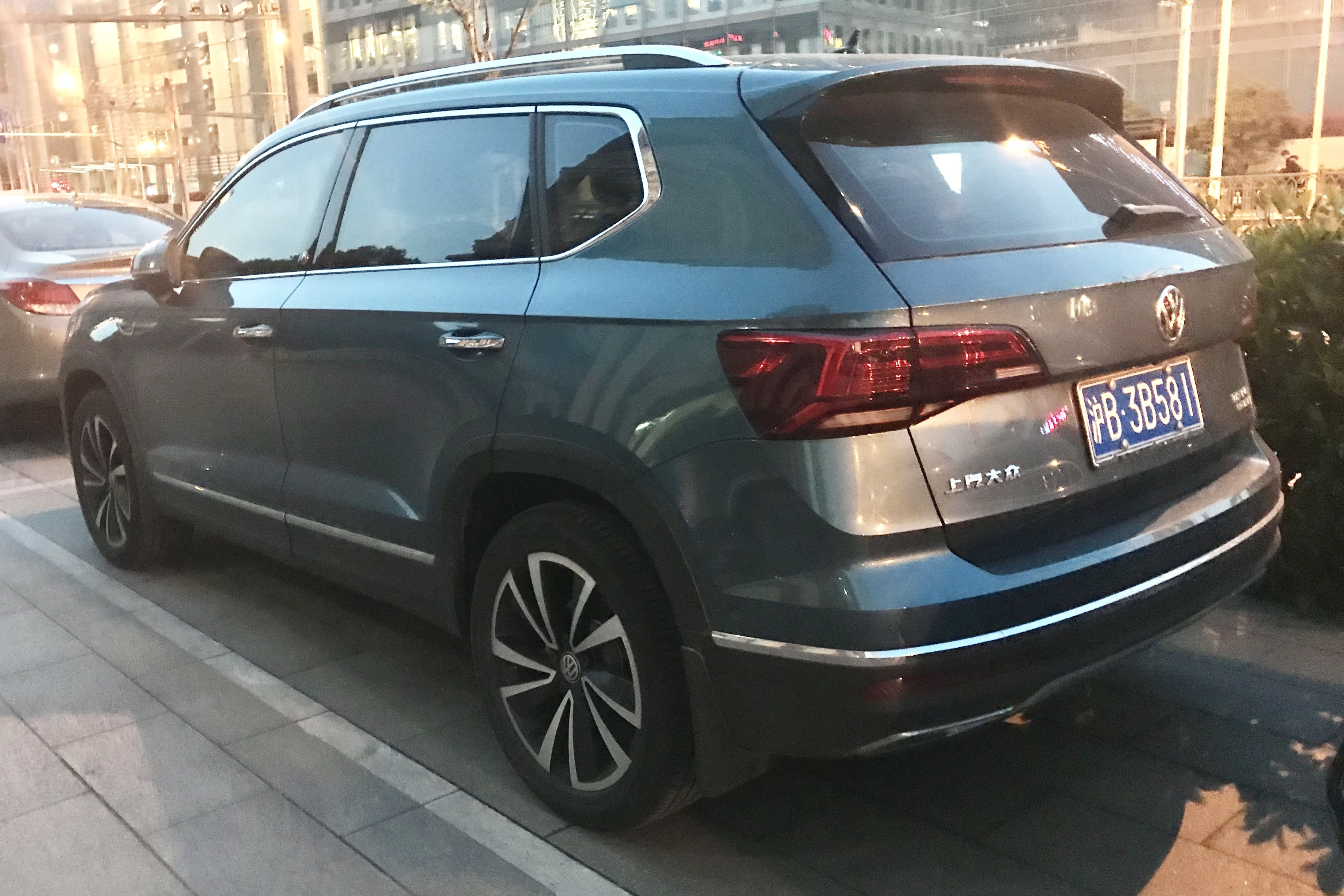 Volkswagen Tharu rear